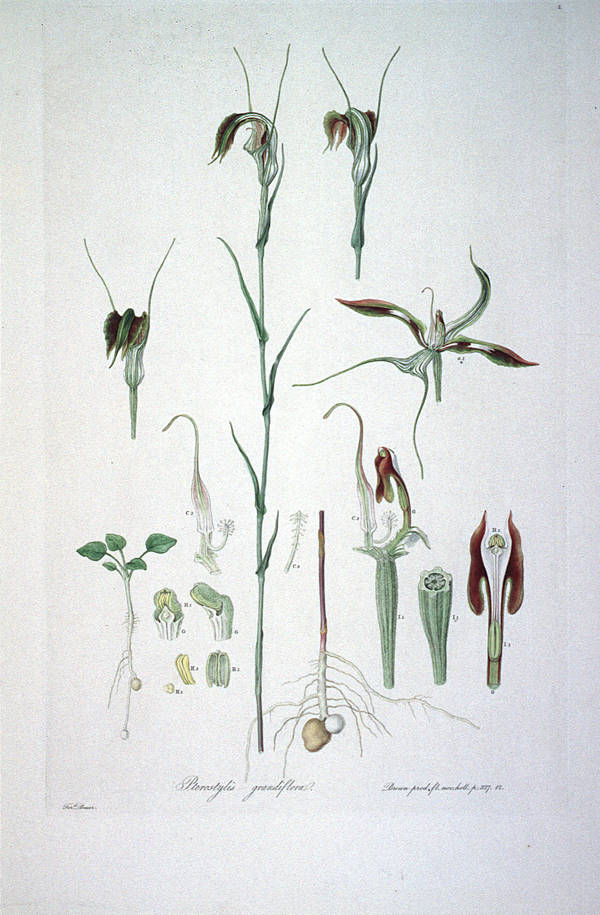 This is a scan of Plate 2 from Ferdinand Bauer's Illustrationes Florae Novae Hollandiae. The plant featured is Pterostylis grandiflora.